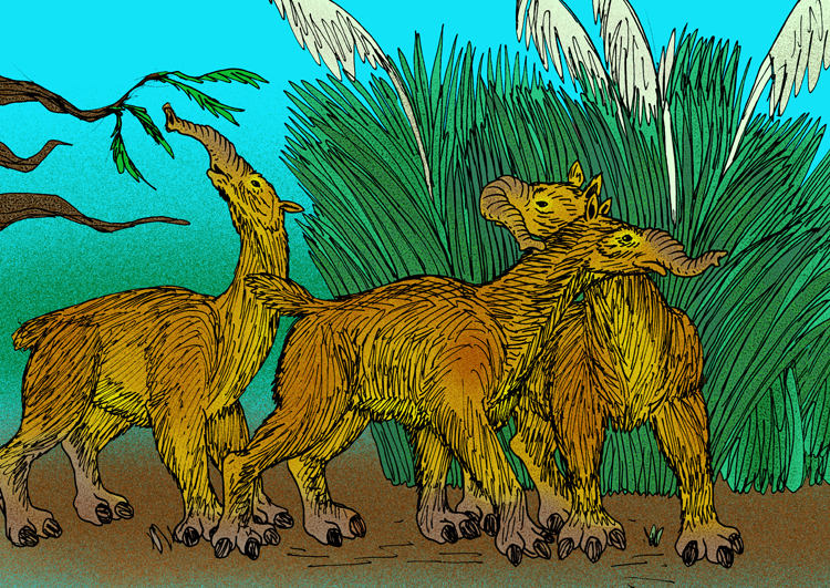 My reconstruction of a trio of Macrauchenia patachonica, of Pleistocene South America. (C) Stanton F. Fink